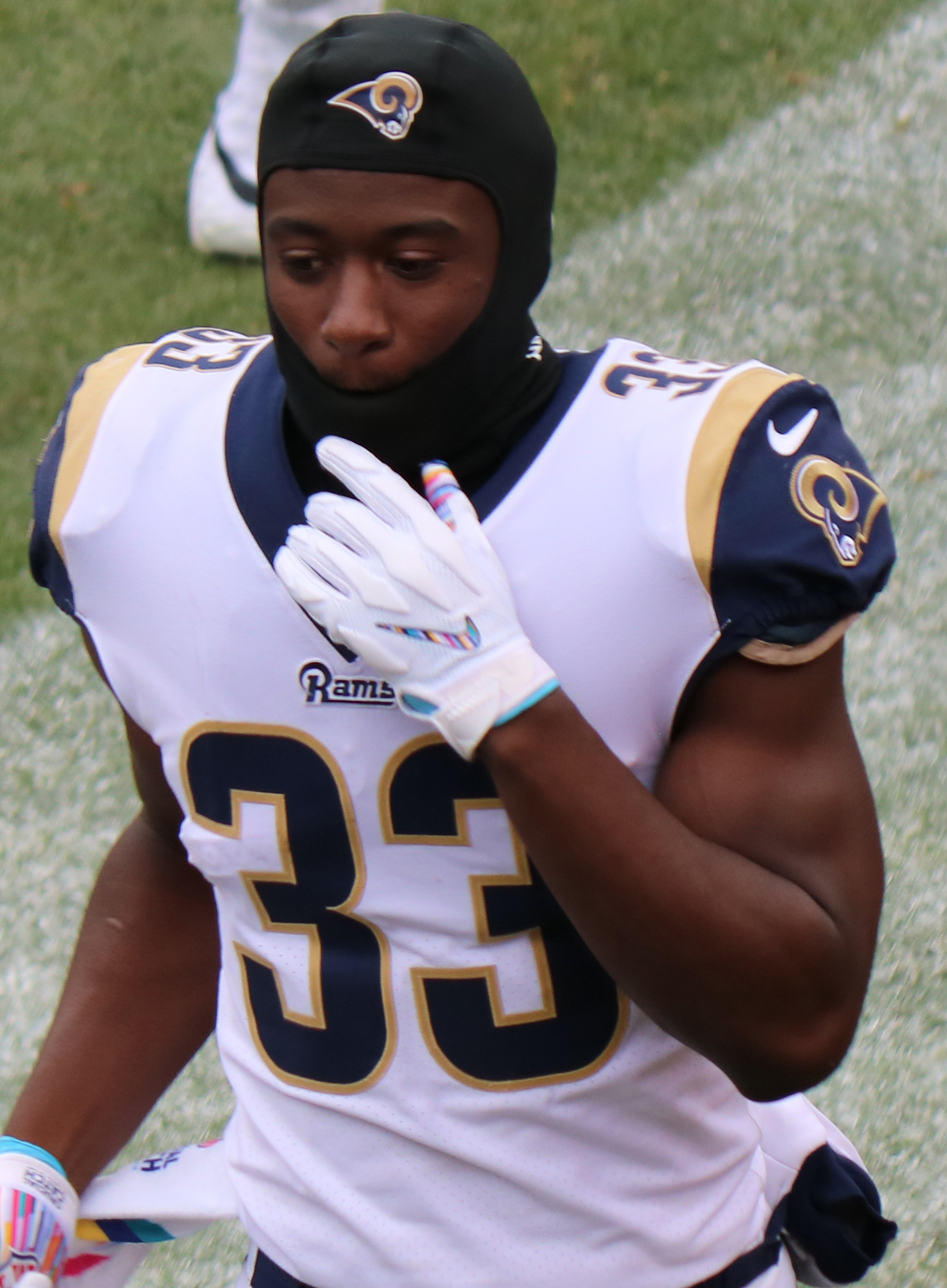 Justin Davis, a National Football League player.